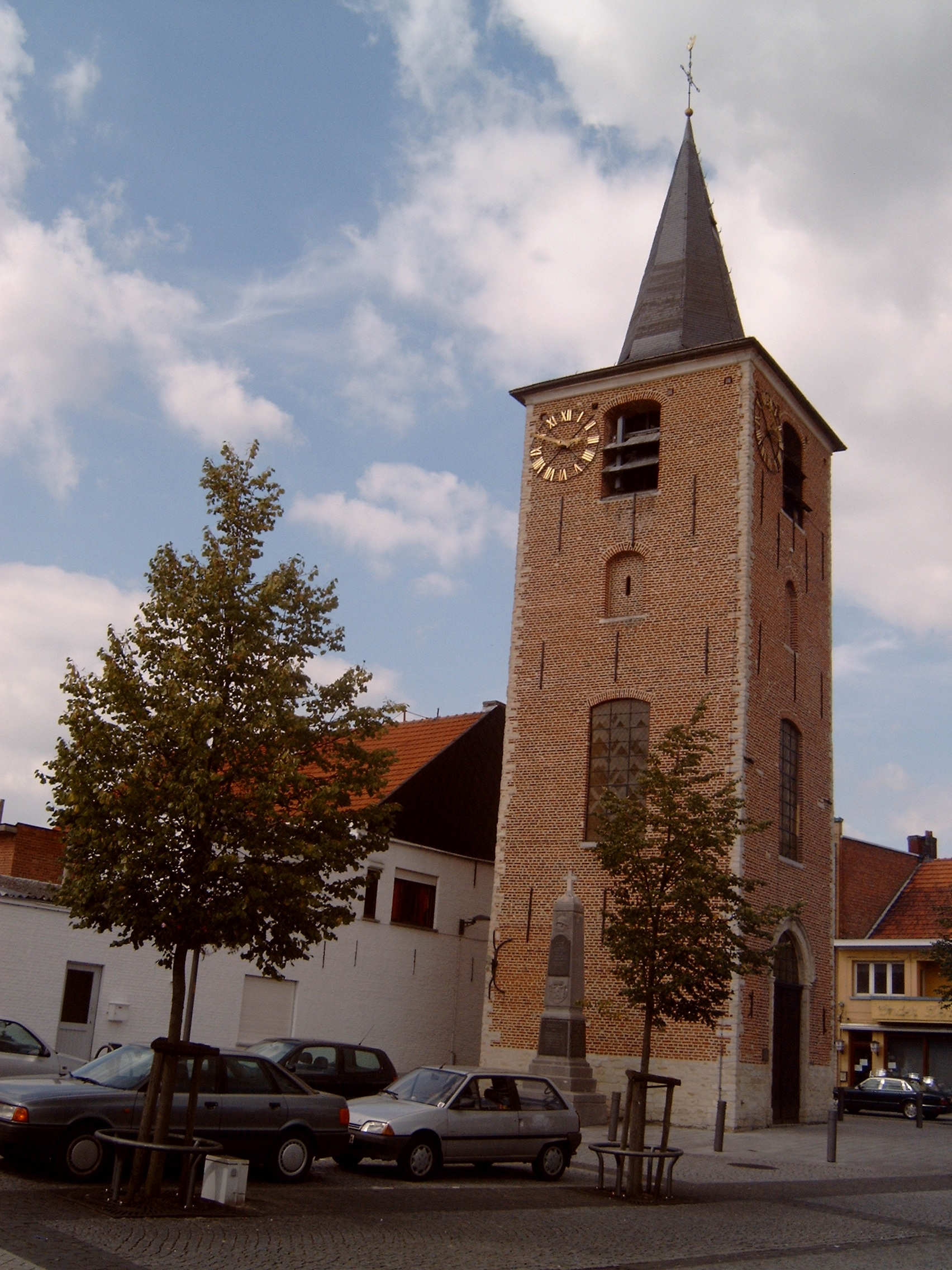 Keerbergen, Church of Saint Michel. Keerbergen, Flemish Brabant, Belgium